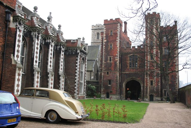 Lambeth Palace Inside the precinct of Lambeth Palace looking towards the Tudor gatehouse